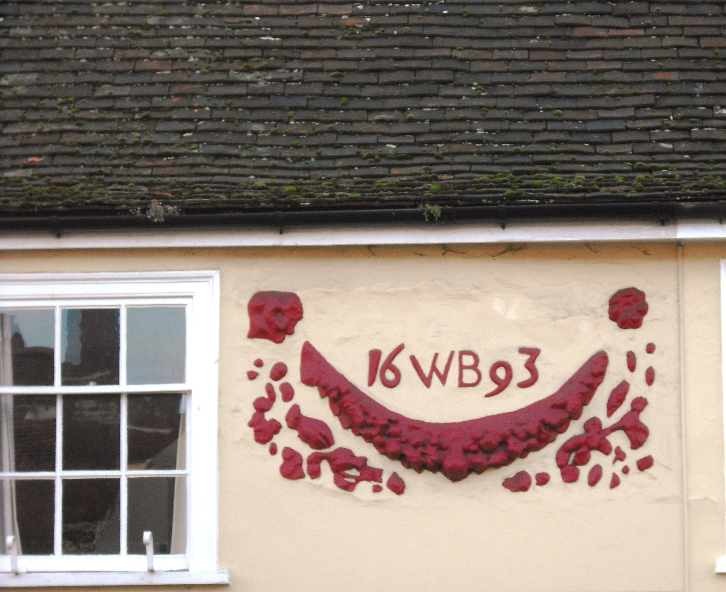 Example of pargetting at 81, High Street, Hadleigh, Suffolk